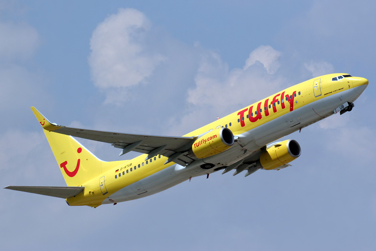 Munich (EDDM/MUC) Airport